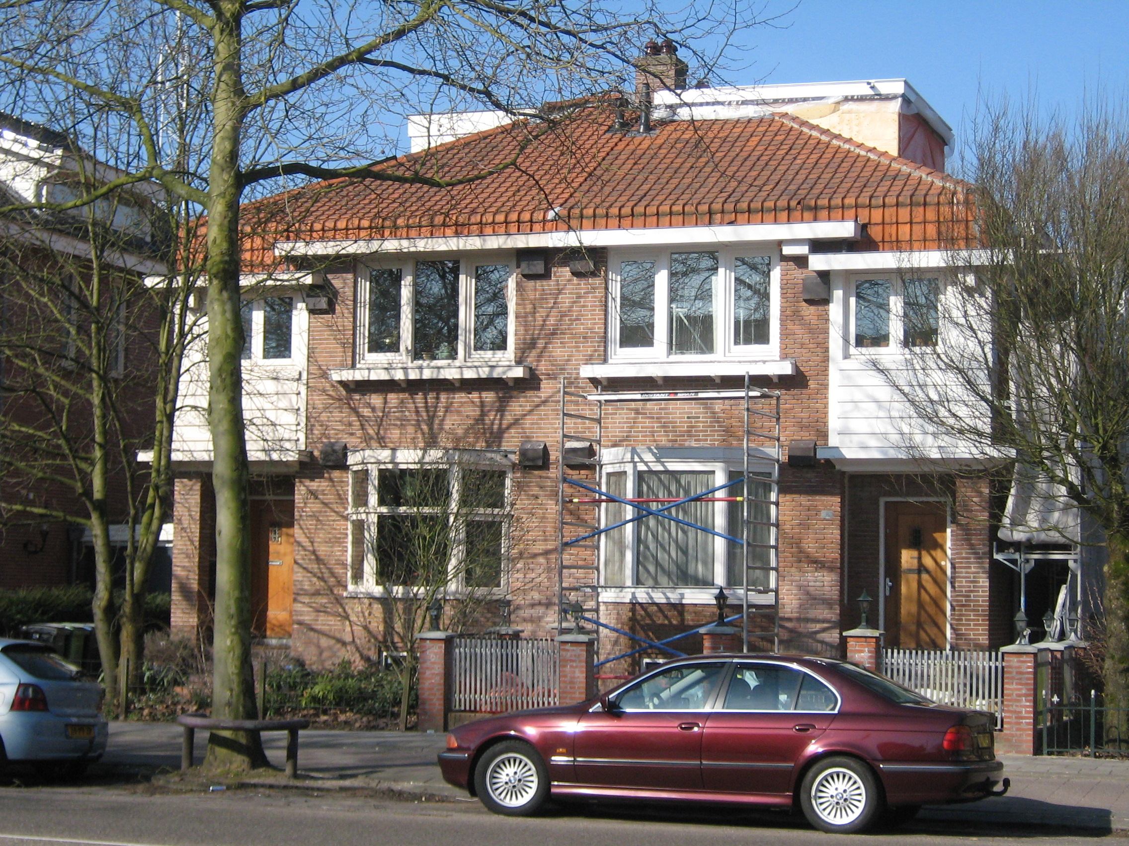 Duplex house at 479 (left-hand side) and 481 Amsterdamseweg, Amstelveen, the Netherlands, seen from the east. The two dwellings are municipal monuments registered as 0362/10035 and /10036, respectively.